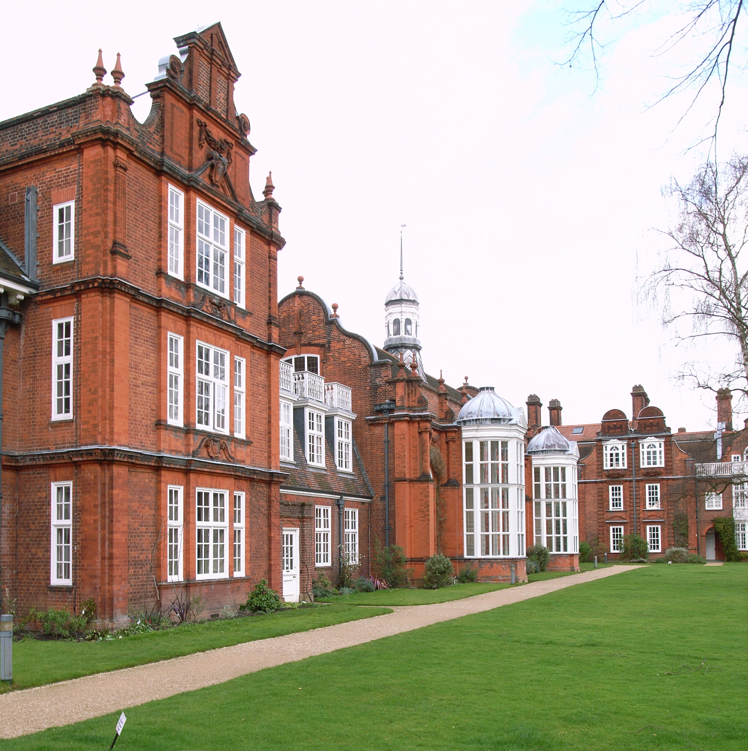 Newnham College, Cambridge, by Basil Champneys, with gardens by Gertrude Jekyll